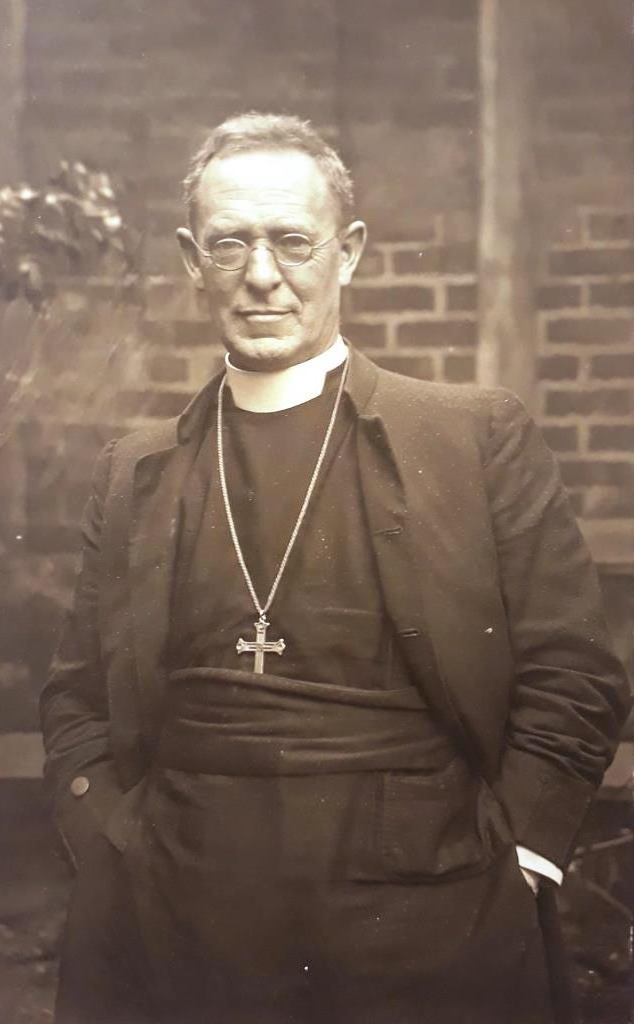 George Harvard Cranswick (1882-1954)